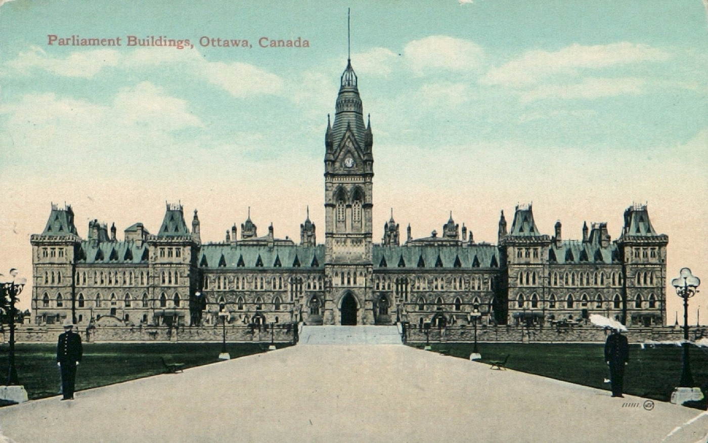 Original Centre Block on Parliament Hill, Ottawa, Canada. Destroyed by fire in 1916.